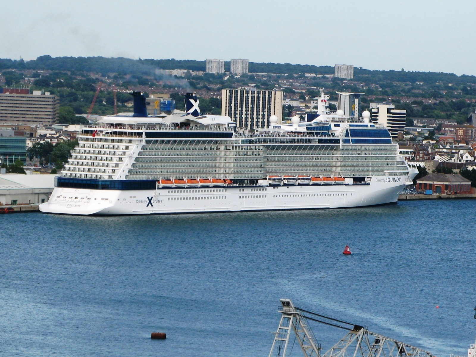 the Cruise ship Celebrity Equinox